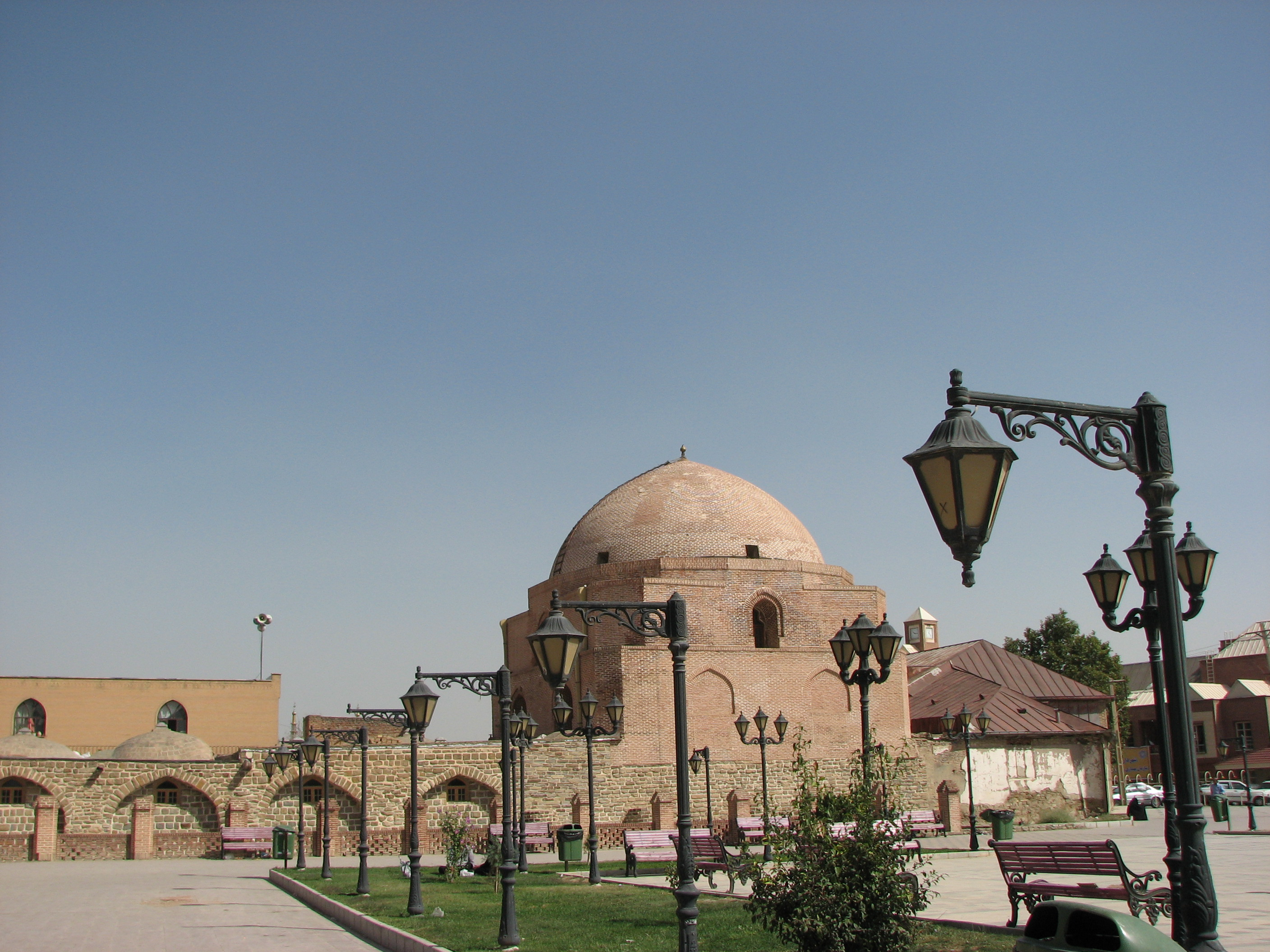 Jame Mosque of Urmia